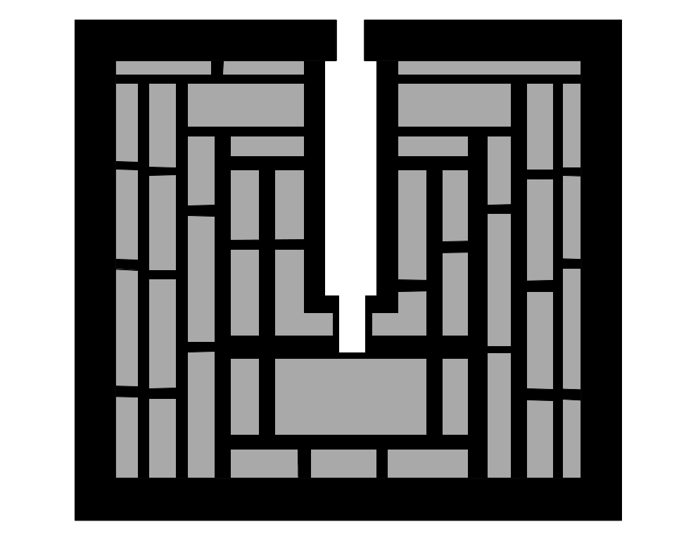 Foundation of the Tetisheri-Pyramid in the Ahmose pyramid complex